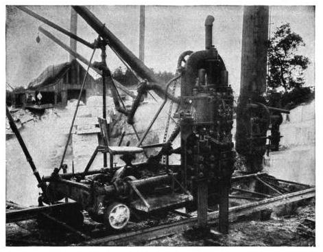 A Sullivan "Duplex" Channeler at the Evans Marble Company quarry near Friendsville, Tennessee, USA. These channelers were used to cut vertical grooves into the quarry's rock, allowing it to be split off into blocks.